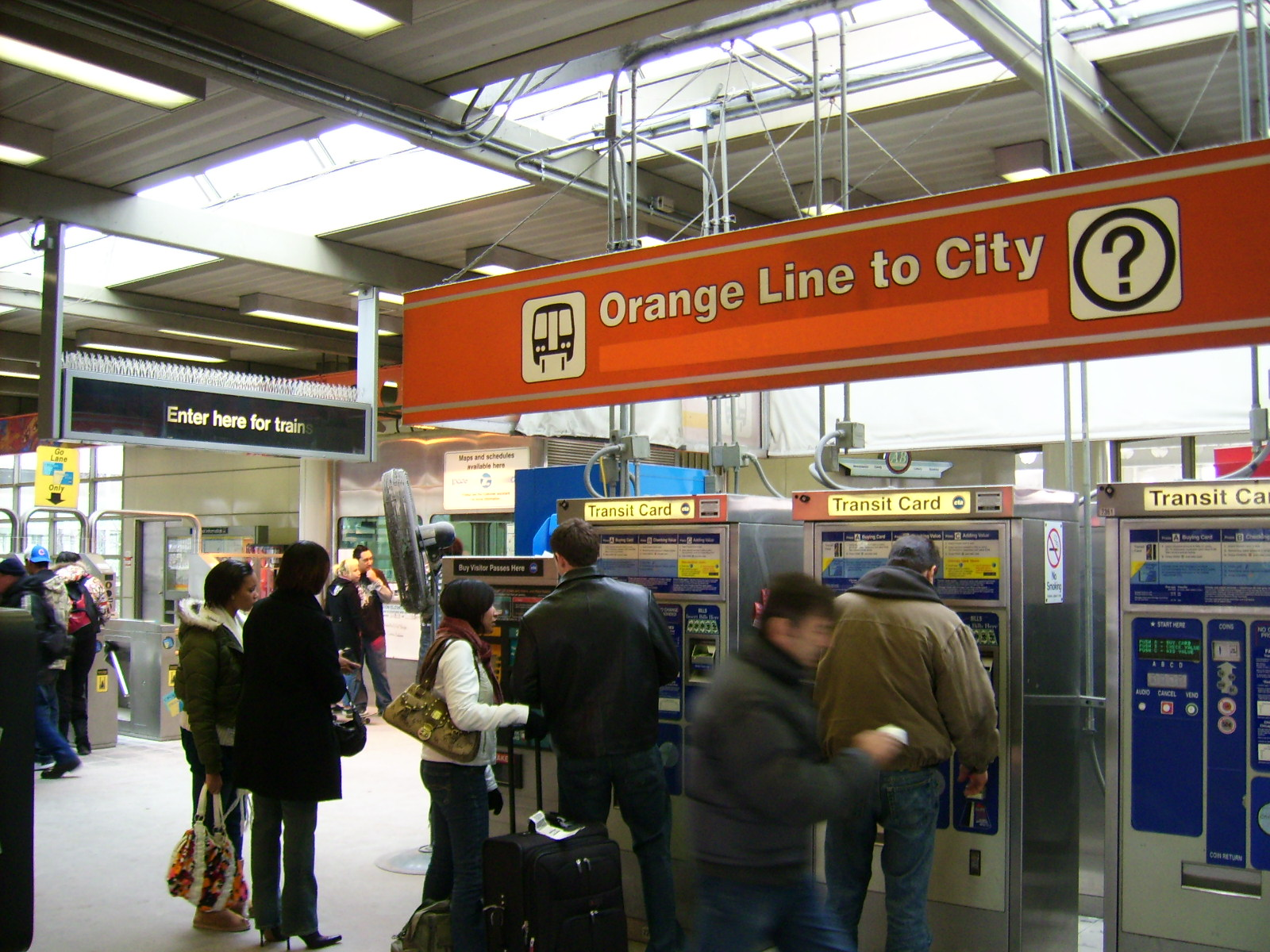 Passengers purchase tickets at the Midway Airport Orange Line station. Chicago, USA.